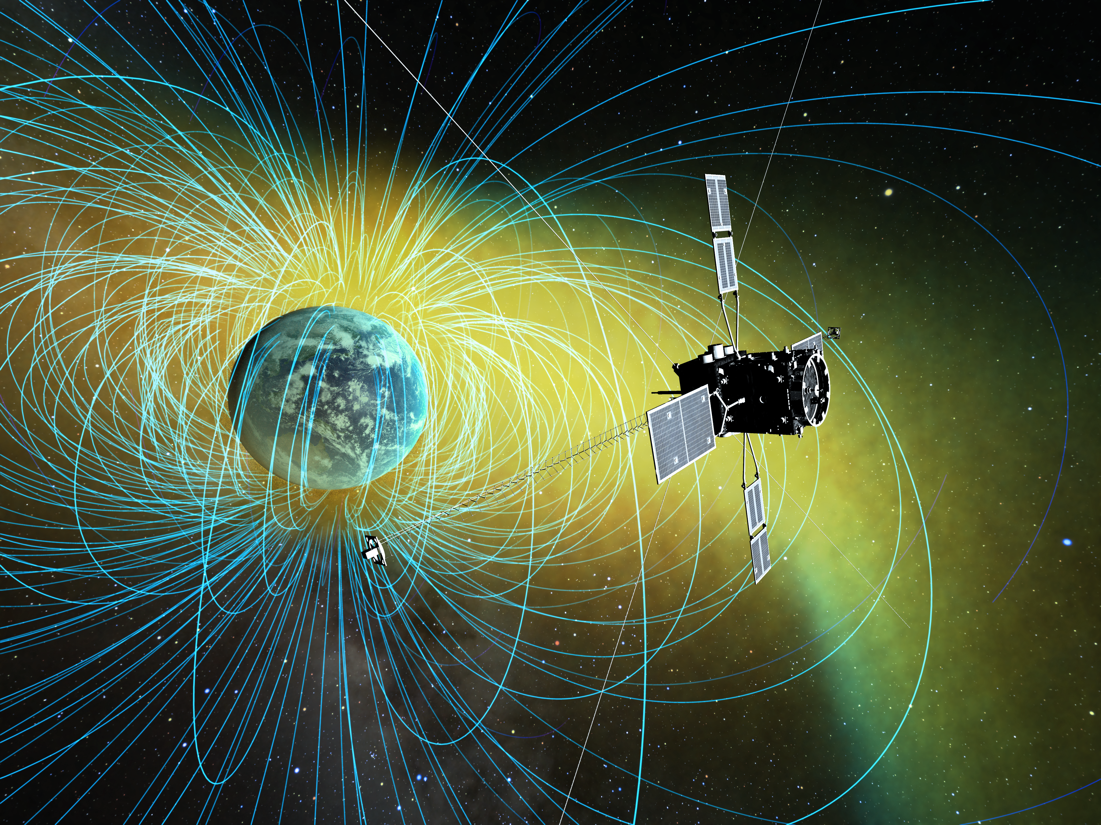 Artist's rendering of the ERG satellite on orbit (c) ISAS/JAXA